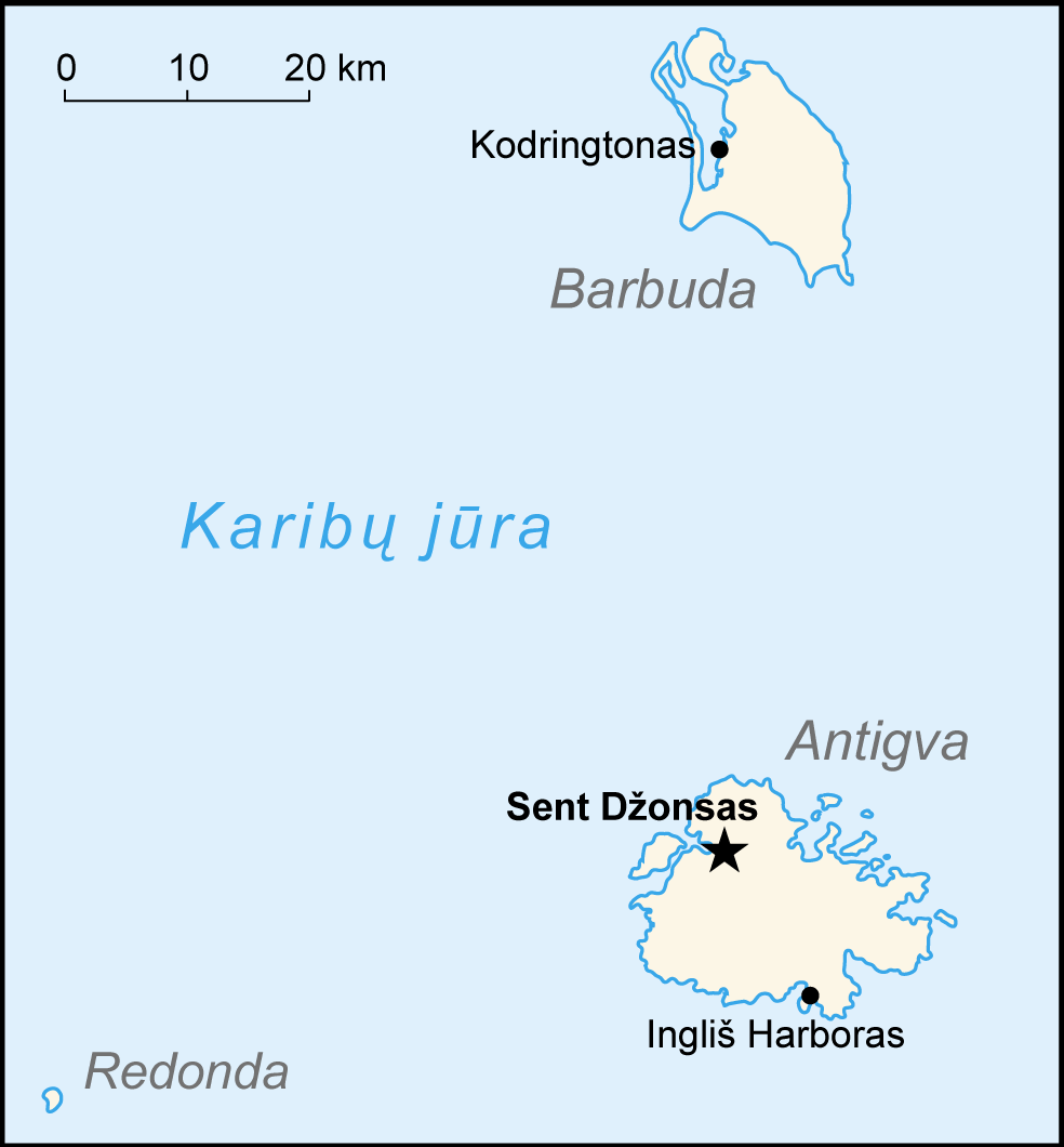 Map of Antigua and Barbuda (Lithuanian version)